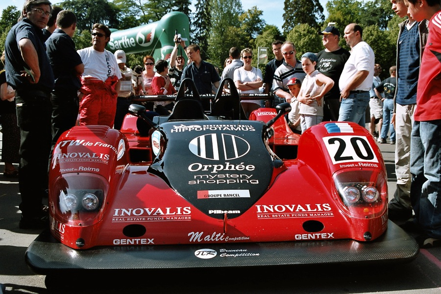 A Pilbeam MP93 at the 2005 24 Hours of Le Mans